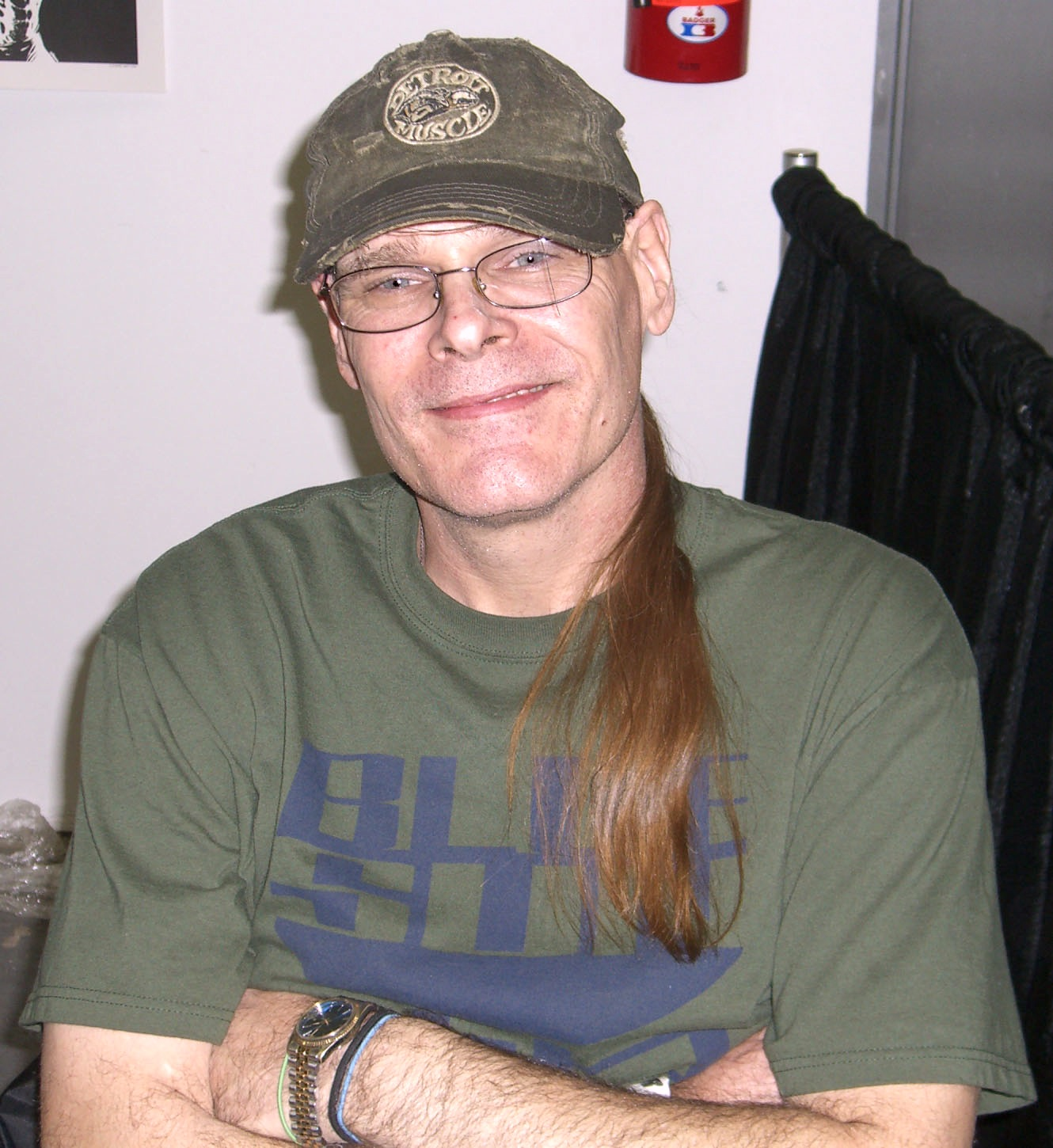 Comic book creator James O’Barr at the Big Apple Convention in Manhattan. Photographed by Luigi Novi. This photo may only be used if the photographer is properly credited. (See Licensing information below.)